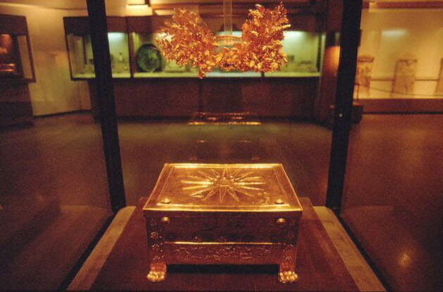 The Golden Larnax (Chrysi Larnaka) (with the Sun of Vergina on the lid) that contains the remains (bones) from the burial of King Philip II of Macedon and the royal golden wreath. Formerly located at the Thessaloniki's Archaeological Museum, Thessaloniki Greece, now (since 1997)[1] displayed at the underground museum stage of Verghina, inside the Great Tumulus.[1]